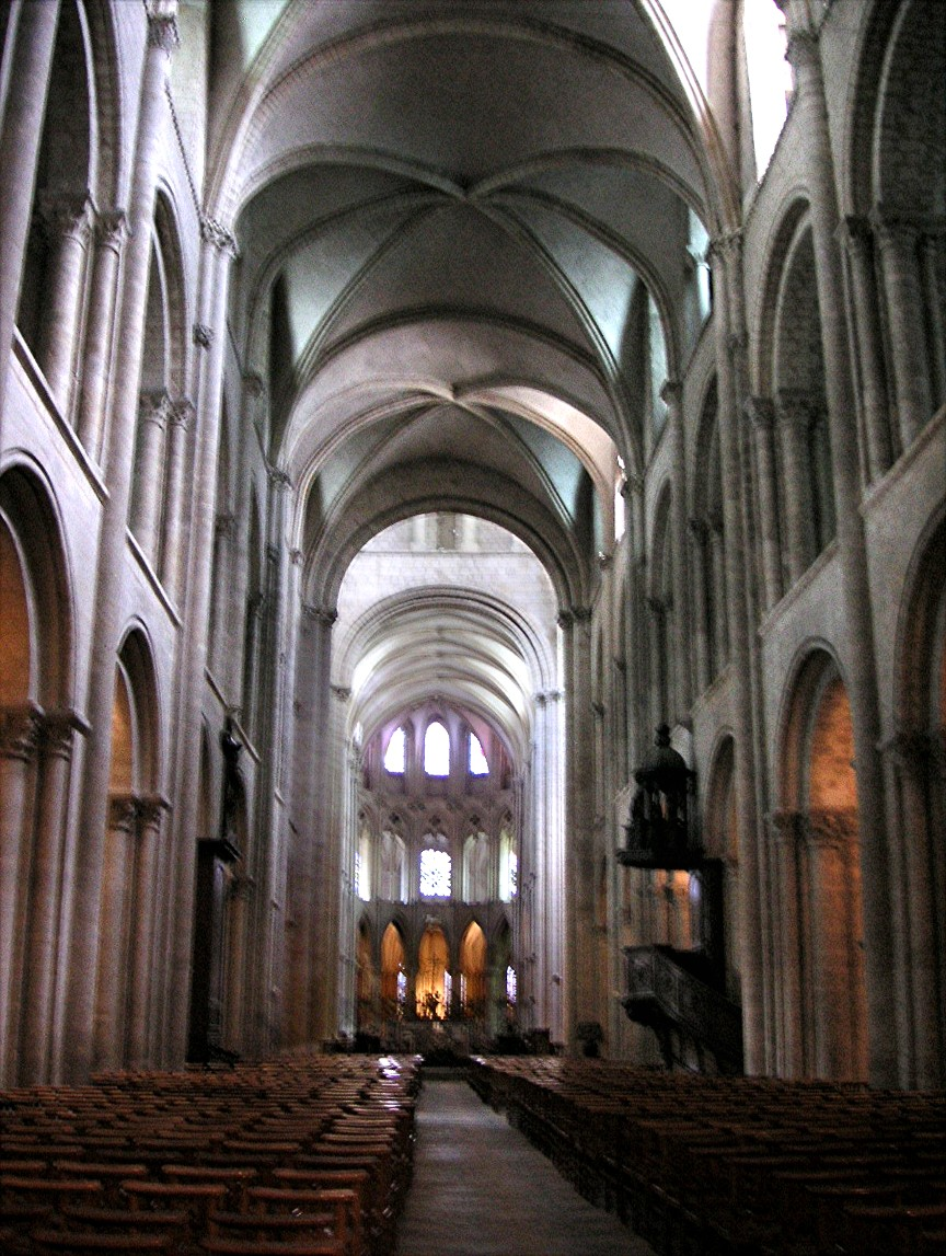 Nave of the church of Saint-Étienne (St Stephen) in the former Abbaye aux Hommes, Caen (Calvados, Basse-Normandie).